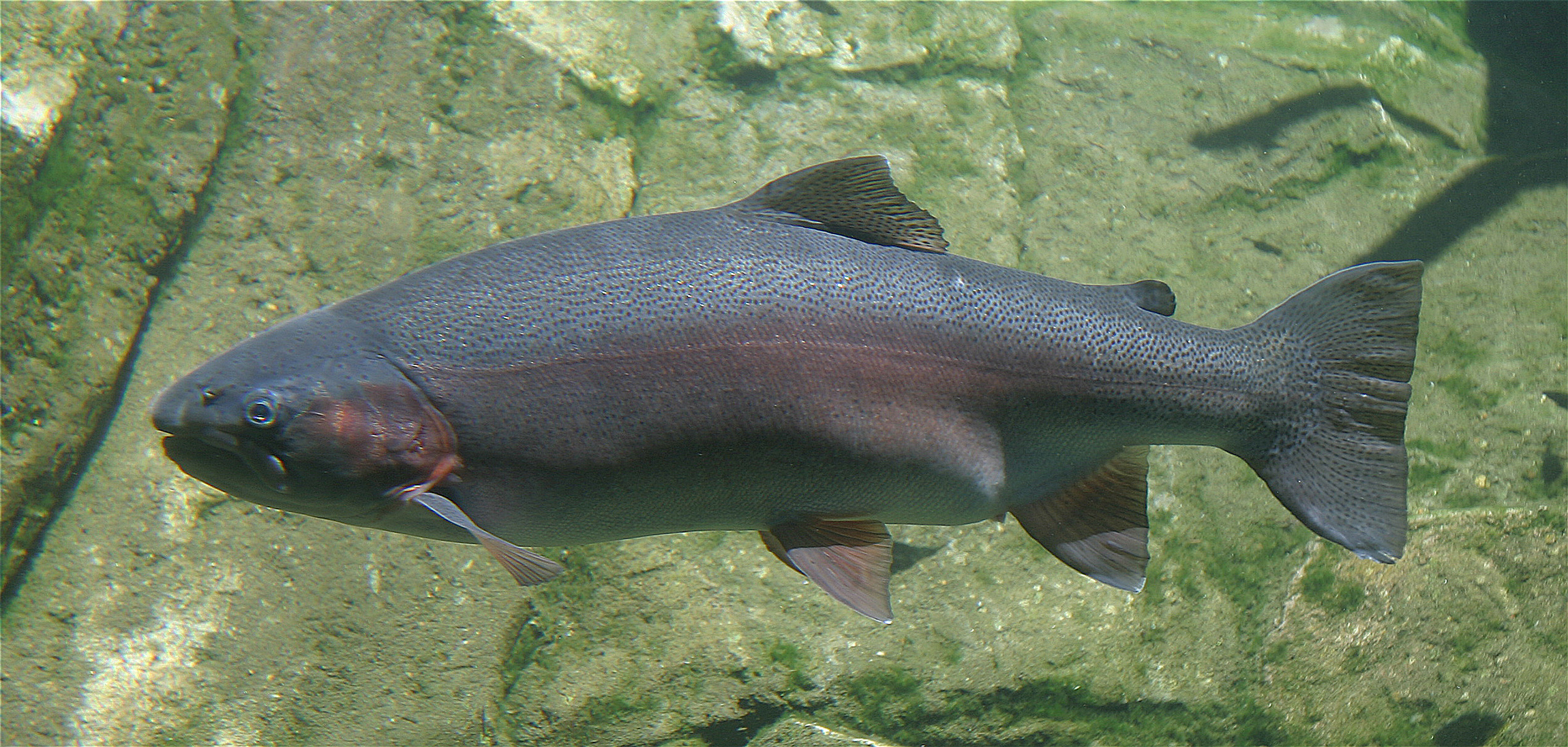 Oncorhynchus mykiss (Steelhead) at the Oregon Zoo